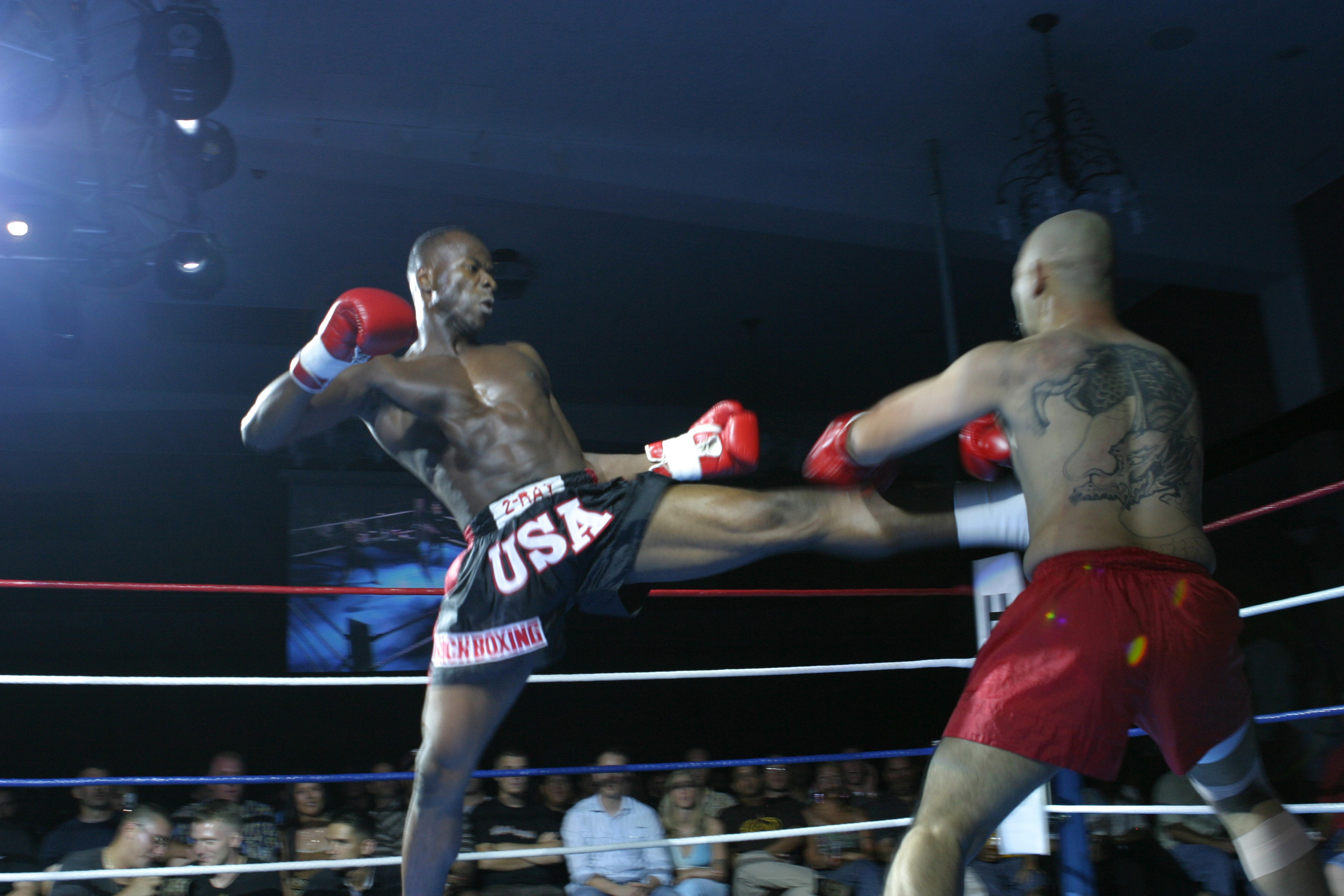 050716-M-1837P-001 KADENA AIR BASE, OKINAWA, Japan - Sgt. Idris N. Turay lands a massive kick to the midsection of Shota Koja during a kickboxing match in the King of Fights X at the Rocker NCO Club here July 16. Turay went on to win the fight by way of knock out in the second round. This Cedar Falls, Iowa, Native is an operations noncommissioned officer with Headquarters Group, III Marine Expeditionary Force. (Official U.S. Marine Corps photo by Pfc. C. Warren Peace)(Released)